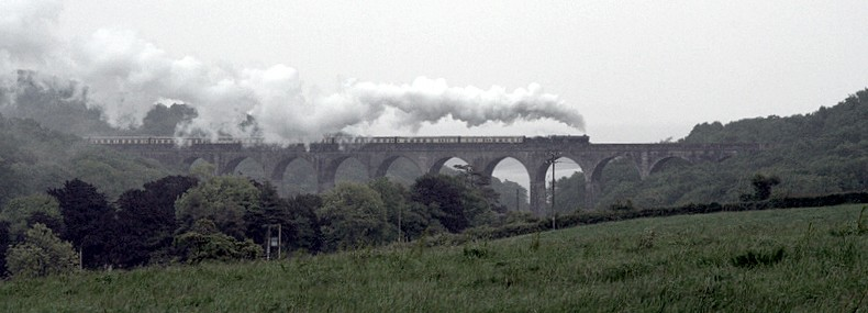 A crop of one of my viaduct shots. The conditions were SO bad that I have half a mind to delete this grainy and rainy shot? [1] [?]